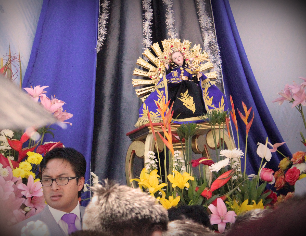 Niño Viajero image in the church of Corazón de Jesús, during the 2013 Pase del Niño Viajero in Cuenca, Ecuador.